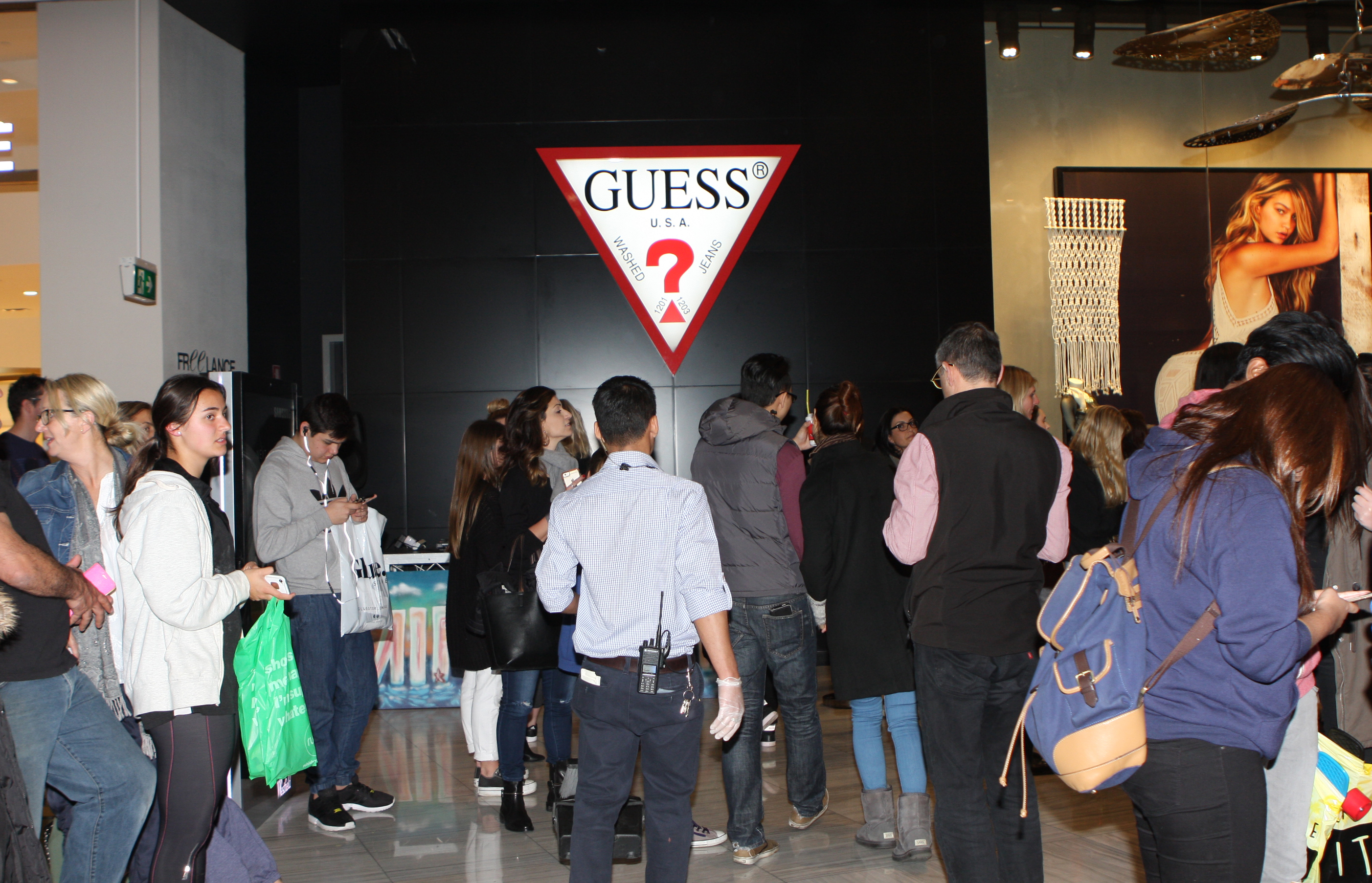 Gigi Hadid in Sydney to celebrate the launch of the Guess Spring Launch 2015 Campaign